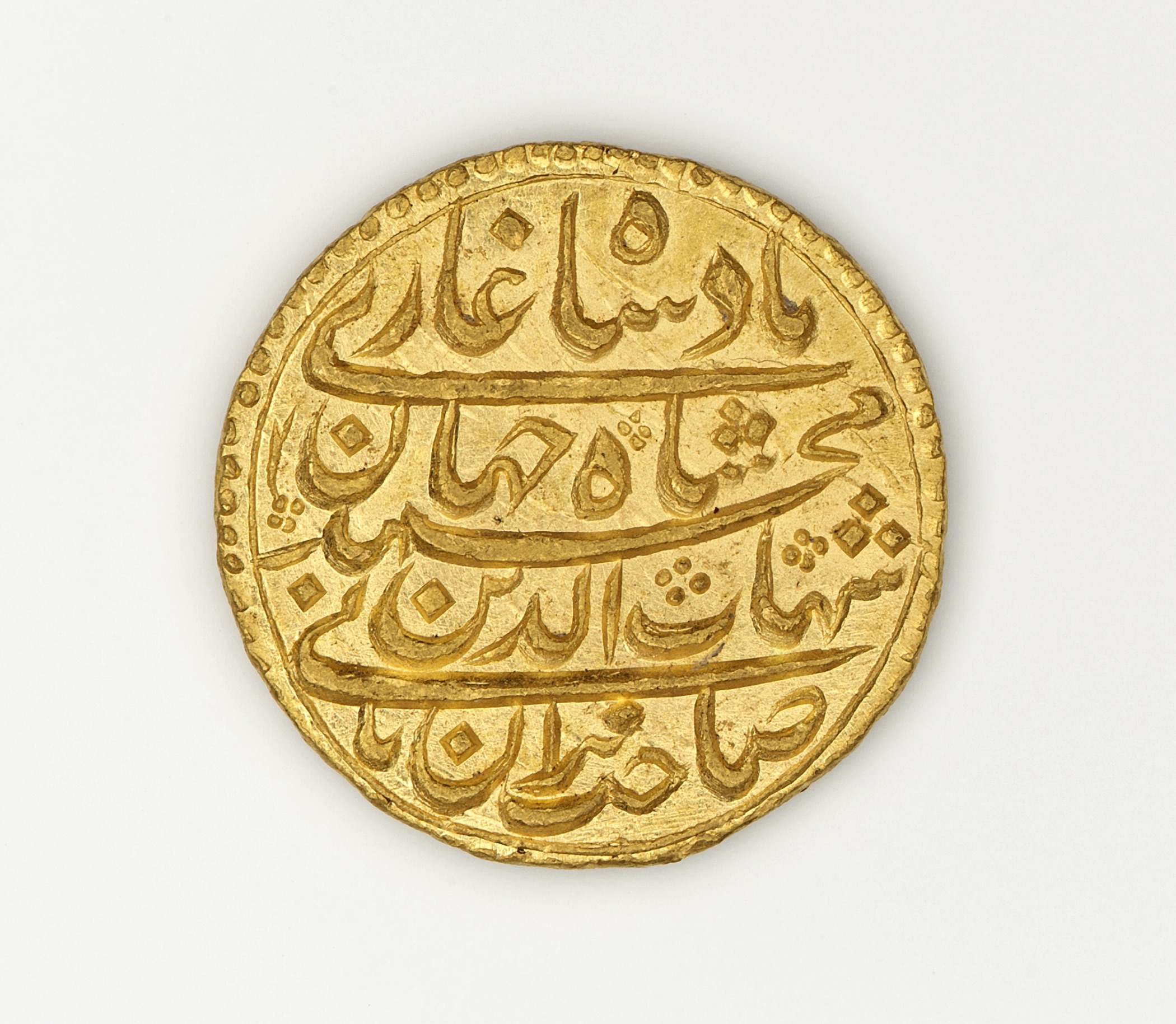 India, Mughal, 1628-1632 Tools and Equipment; coins Gold Gift of Anna Bing Arnold and Justin Dart (M.77.55.12) South and Southeast Asian Art